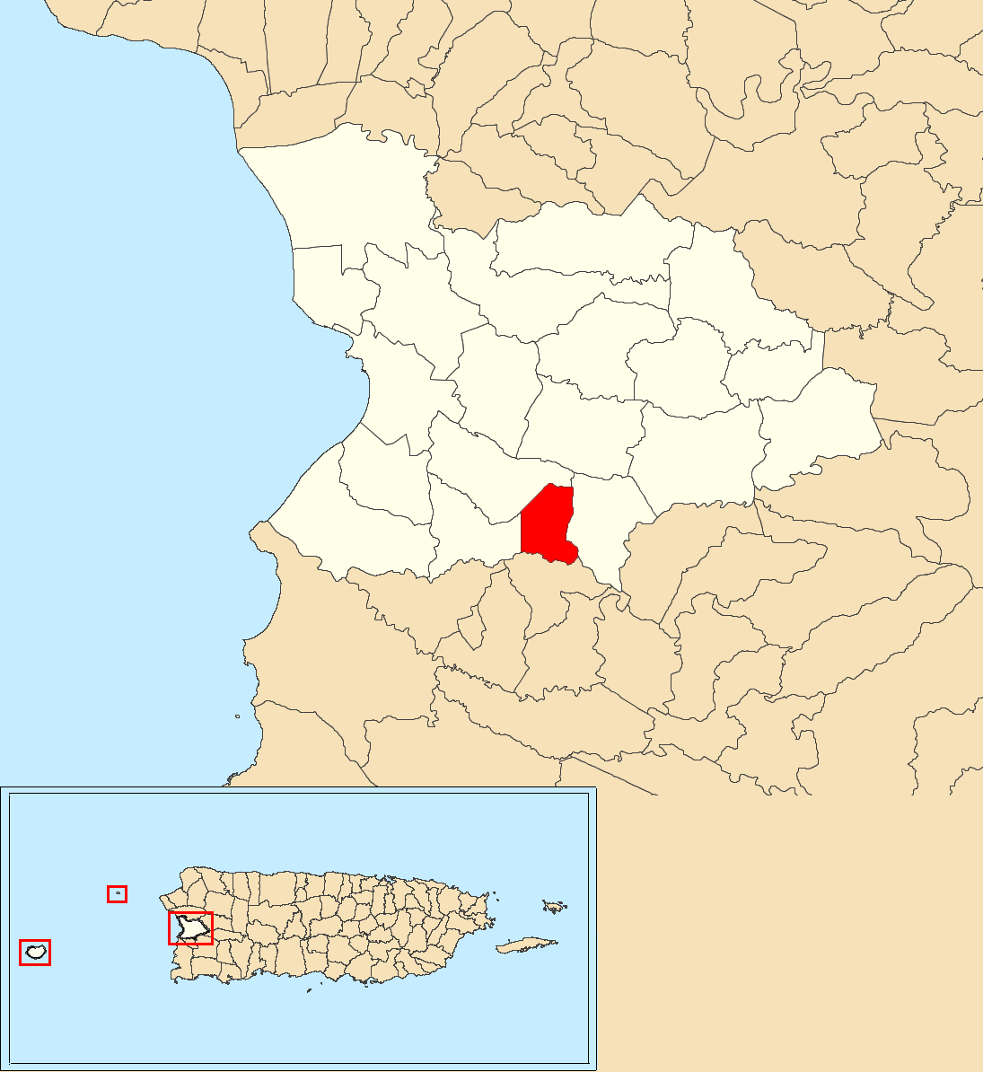 Malezas, Mayagüez, Puerto Rico locator map